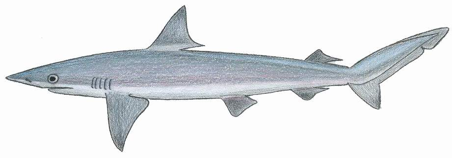 Carcharhinus porosus